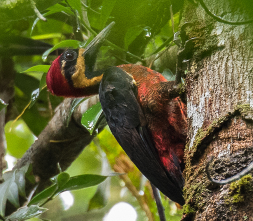 Hard to photograph , He moves in very high trees with few little windows in the branches to see it.